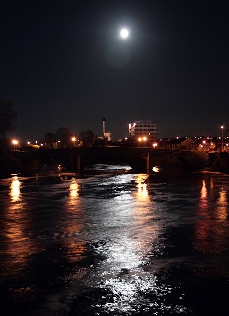 Moon river A full moon casts brilliant white light on to the River Aire upstream from Castleford Bridge and the Nestlé factory. Four grid squares intersect in this view, but the 1:25,000 map suggests most of it is in SE4225.